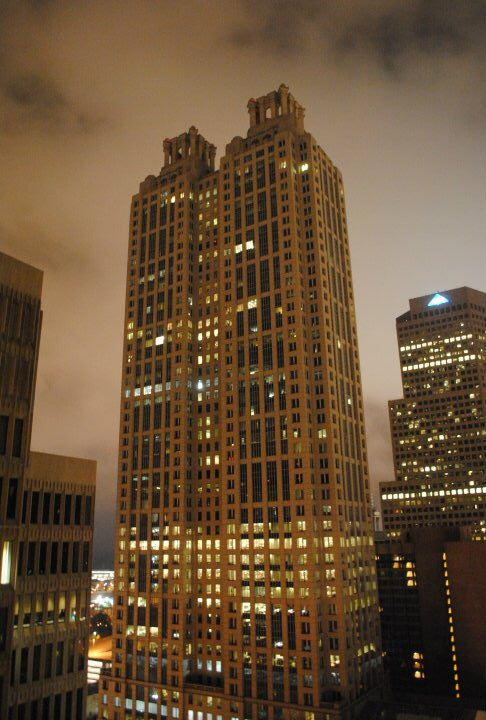 191 Peachtree Tower